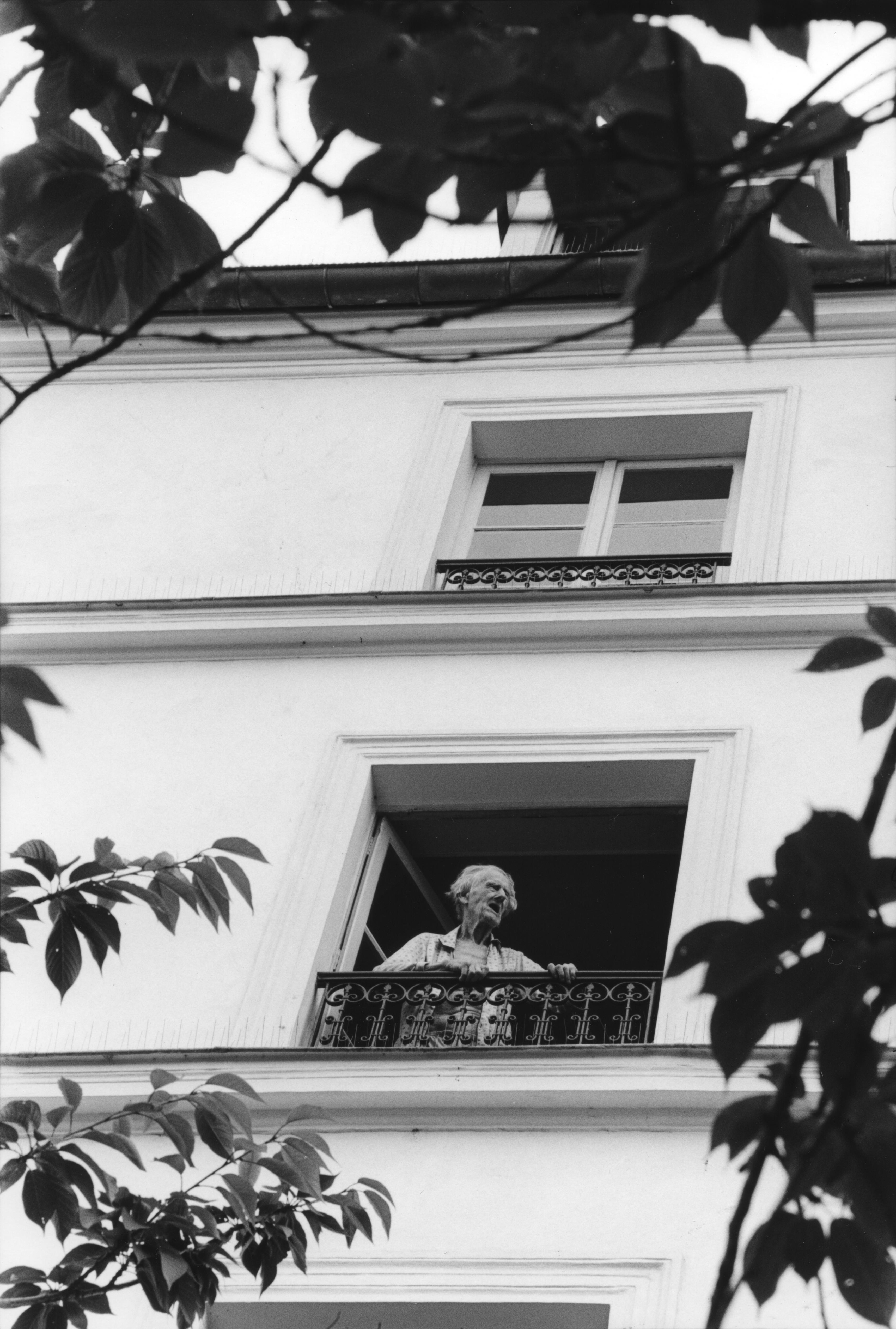 George Whitman photographed above his bookshop in 2008 by Olivier Meyer